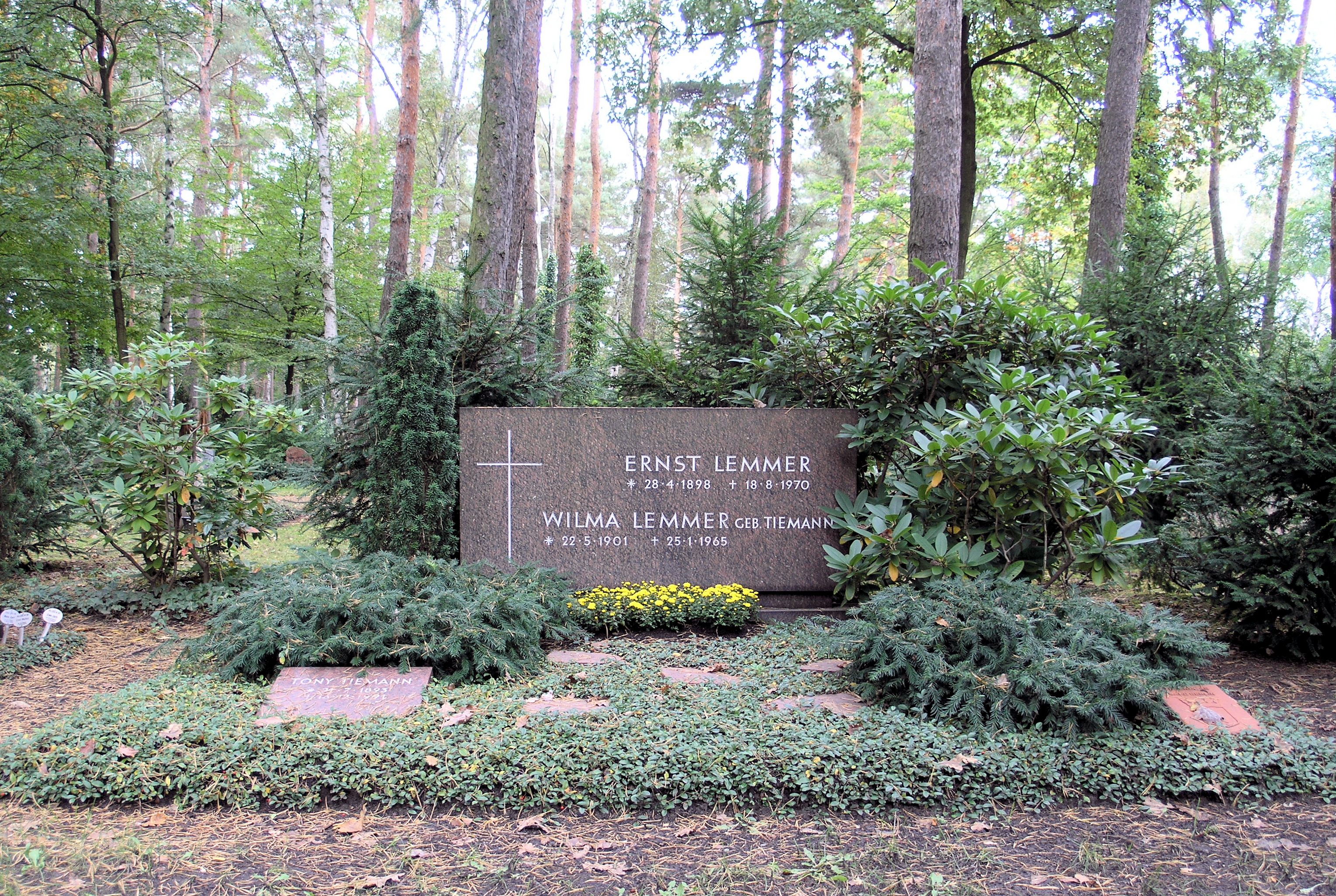 "Ehrengrab" (grave of honor), Ernst Lemmer, Potsdamer Chaussee 75, Berlin-Nikolassee, Germany Koordinate:52°25′23″N 13°12′38″E / 52.42306°N 13.21056°E